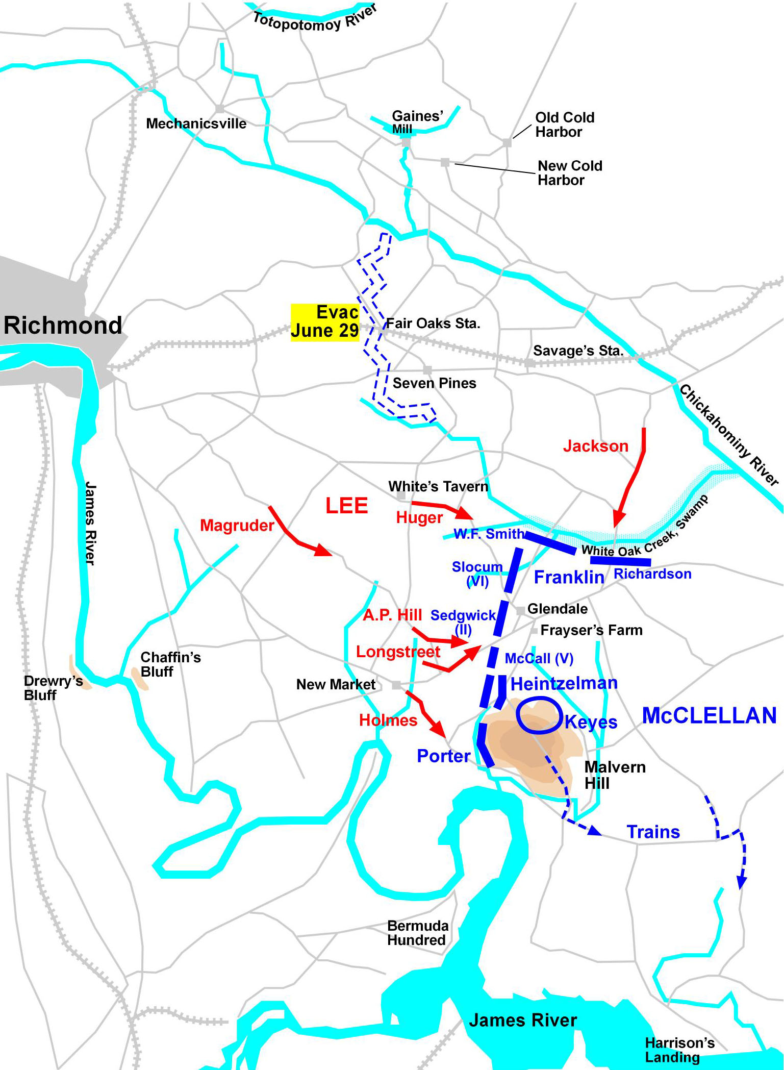 Map of the Seven Days Battles (Peninsula Campaign) of the American Civil War, actions on June 30, 1862. (JPEG format due to printing problems from some browsers.)